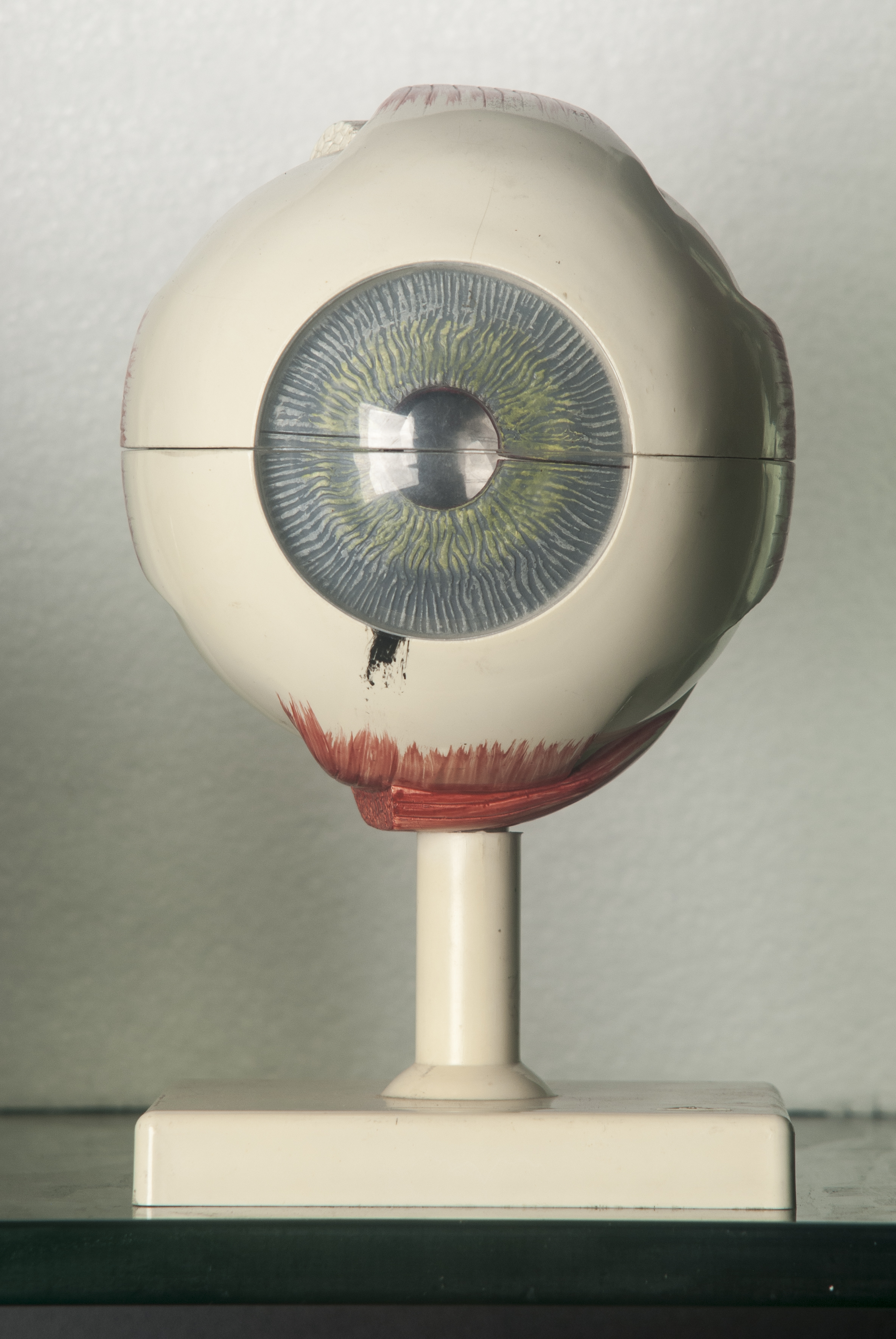 Human eyeball. Teaching model representing different parts of the eyeball on display at the Museum of Veterinary Anatomy, FMVZ USP. This file was published as the result of a partnership between the Museum of Veterinary Anatomy FMVZ USP, the RIDC NeuroMat and the Wikimedia Community User Group Brasil. This GLAM project is reported. Photography: Museum of Veterinary Anatomy FMVZ USP. Author: Wagner Souza e Silva.